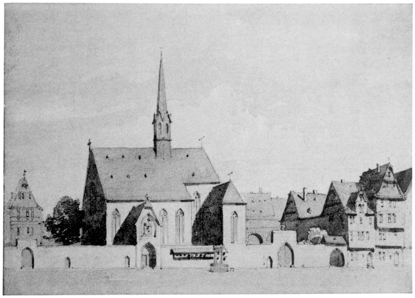 64a. St. Anthony Church and Monastery at the Töngesgasse (Tönges derived from Antonius (Anthony)), in place of the present houses No. 14 and 16, depicted according to the city map by Merian of the 17th century at a larger scale. The Monastery was secularised in 1802 and demolished in 1803. (s. the city map by Merian, Horne, Geschichte von Frankfurt, page 95 and Baudenkmäler in Frankfurt a. M., second issue, page 359.)